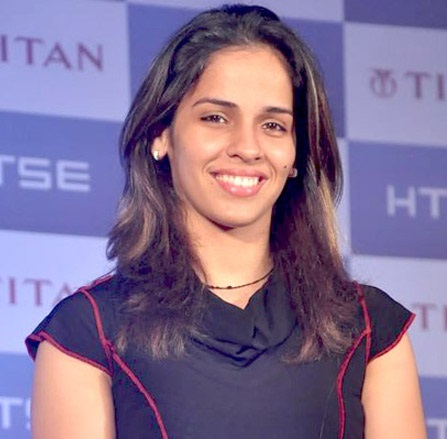 Saina Nehwal at the launch of a new range of Titan watches in 2011.